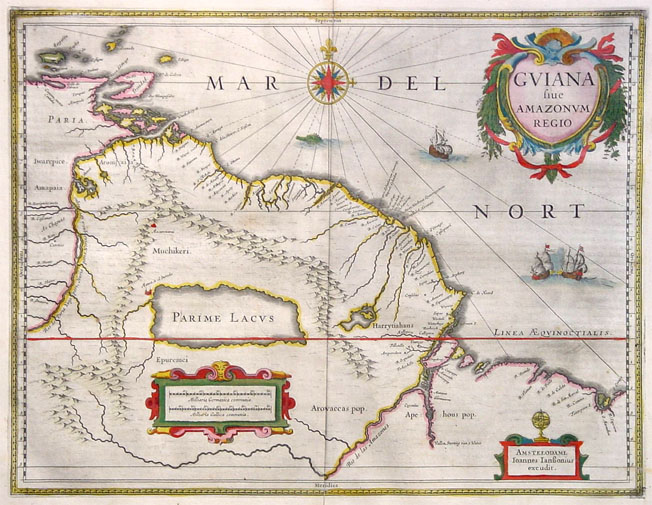 Antique map of Guyana by Janssonius